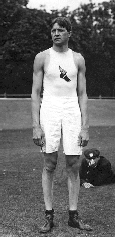 Ray Ewry of the USA in practice at the 1908 London Olympics. He won the gold medal for the Standing High Jump, as well as a gold medal for the Standing Long Jump. He dominated these discontinued events and the discontinued Standing Triple Jump, winning eight Olympic gold medals between 1900 and 1908, and two more at the 'Intercalated' Olympics of 1906.